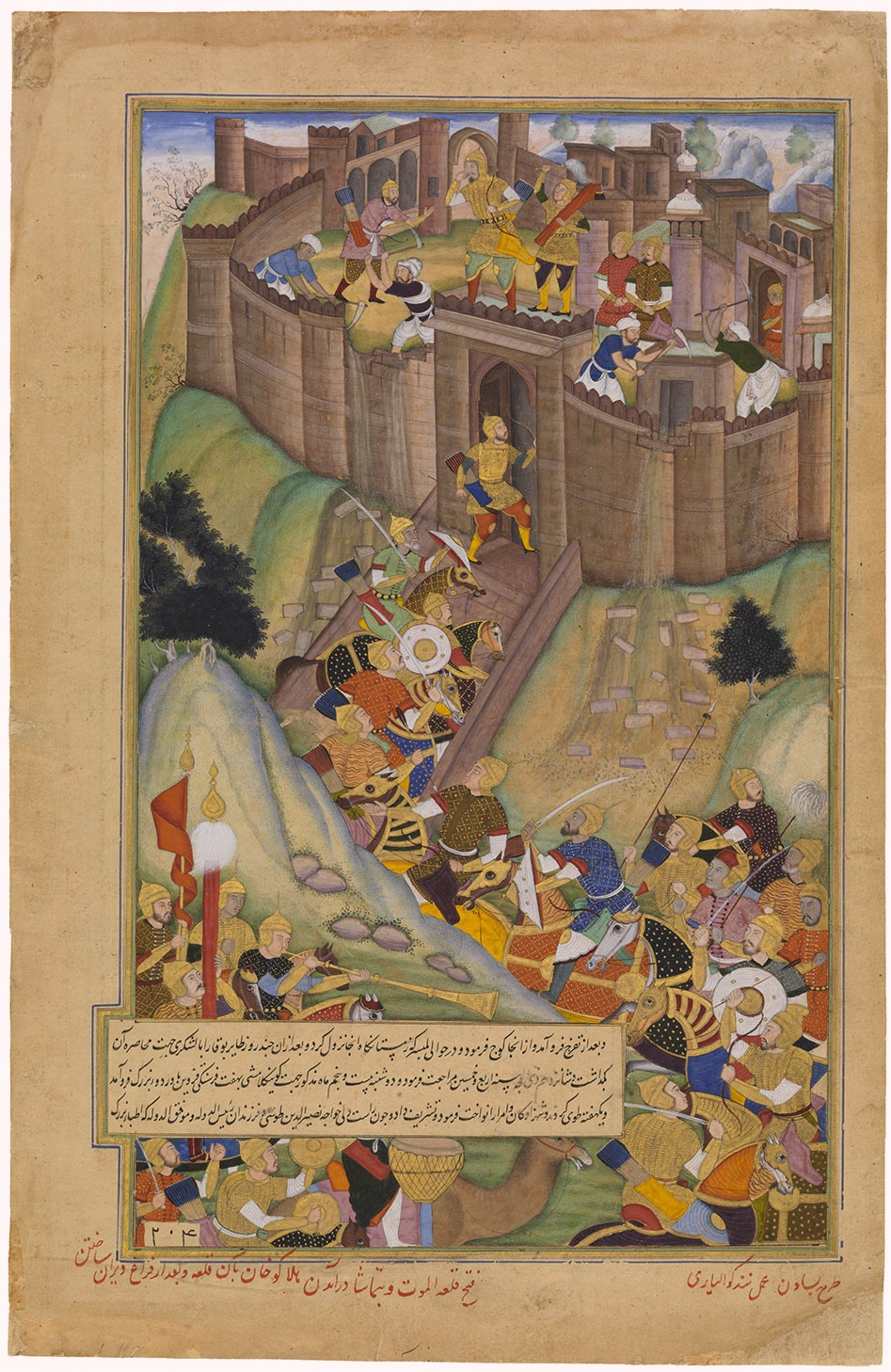 Hulagu Khan Destroy the Fort at Alamut.